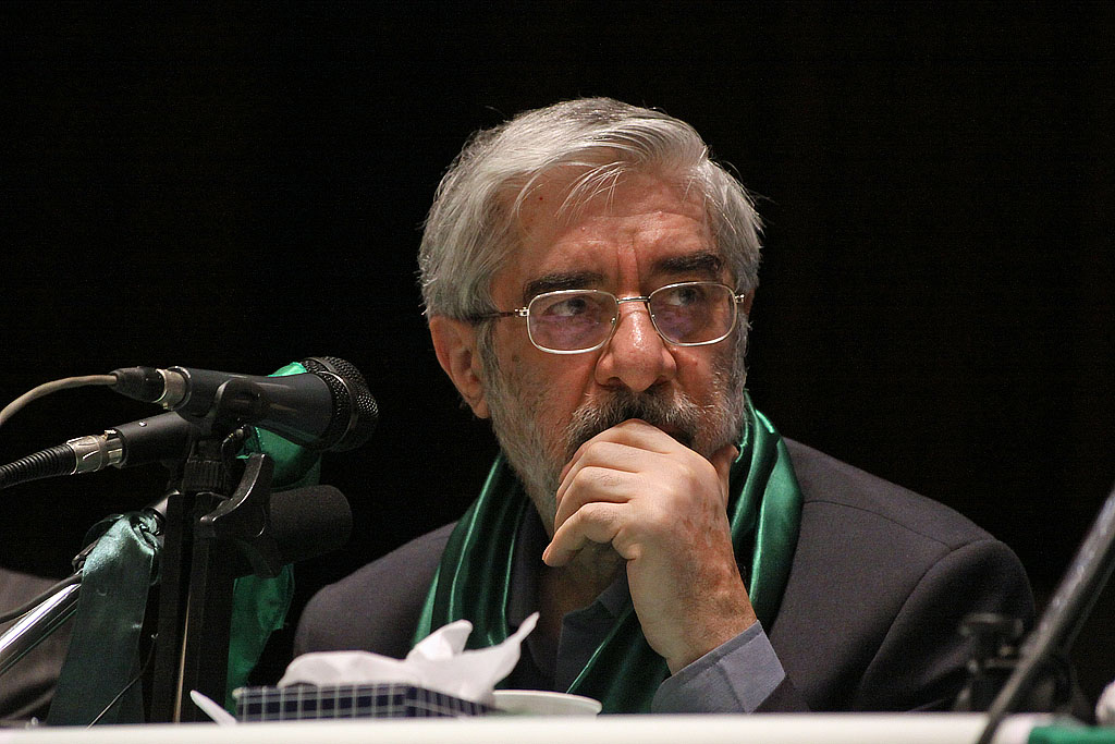 Mir-Hossein Mousavi iranian former prime minister in Zanjan